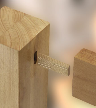 Domino jointer for